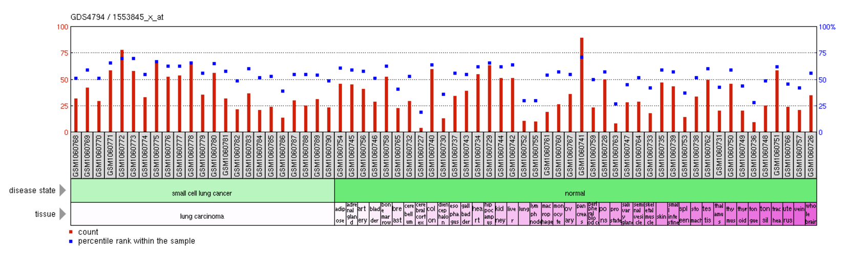 Red lines indicate raw expression values. Blue dots indicate the percentile expression rank of the protein relative to all other proteins in the tissue.